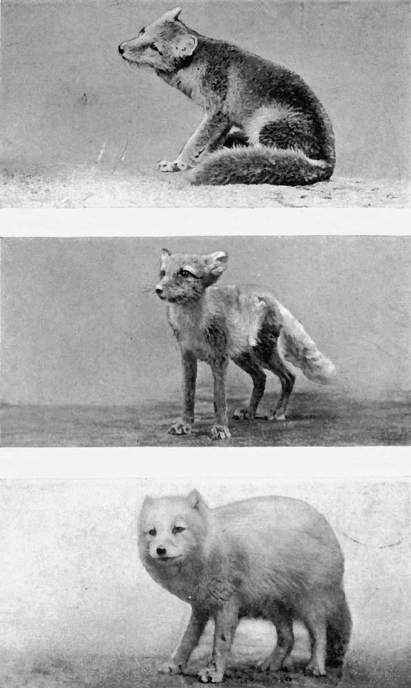 Arctic Foxes Alopex lagopus - original caption cropped out in edit "From photographs by the Scholastic Photographic Agency. Arctic Foxes. The lower figure shows the white phase in winter coat; the upper and central figures are probably the same phase in summer dress."